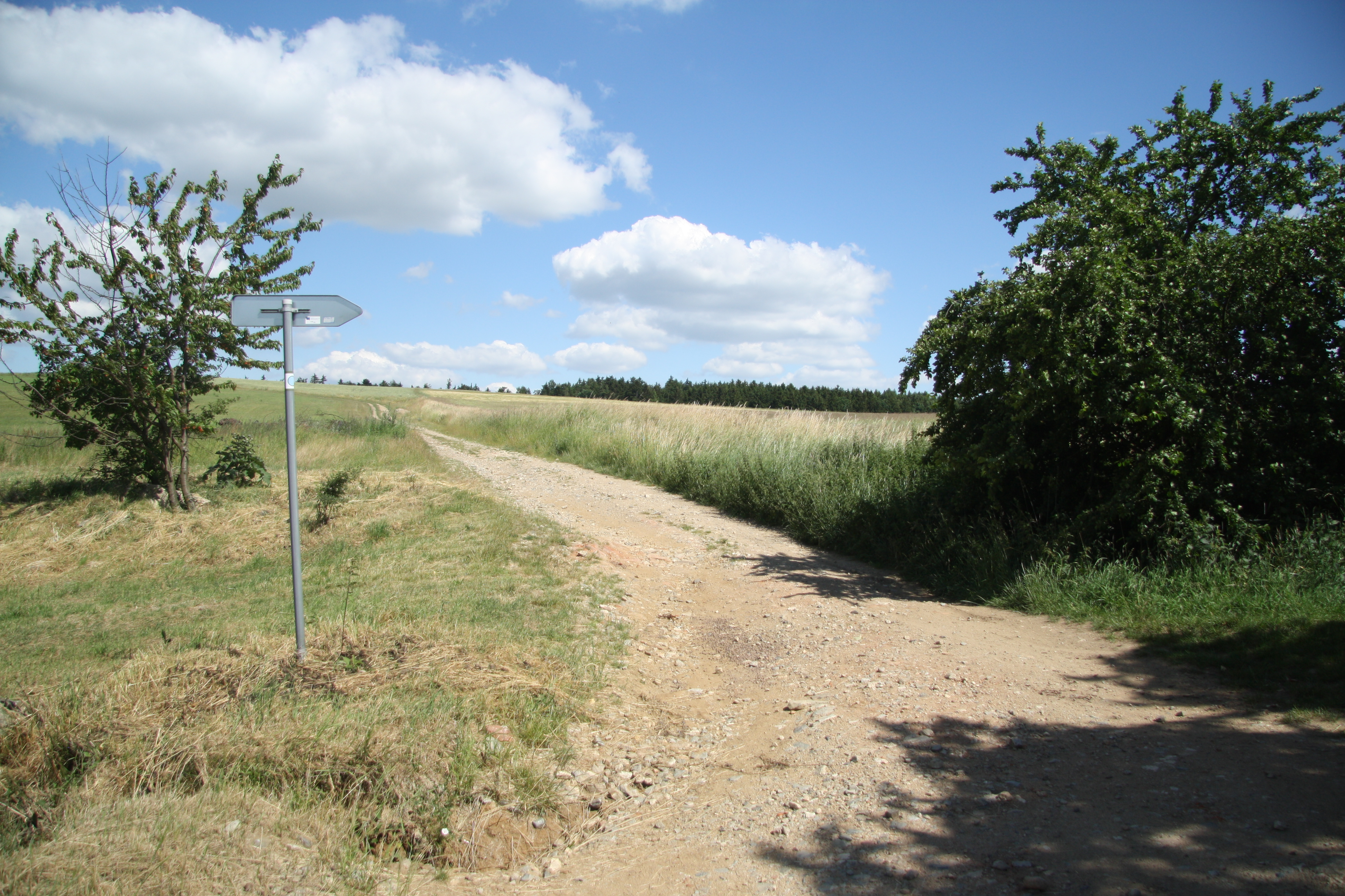 Bike path 5212 and 26 in Mastník, Třebíč District.